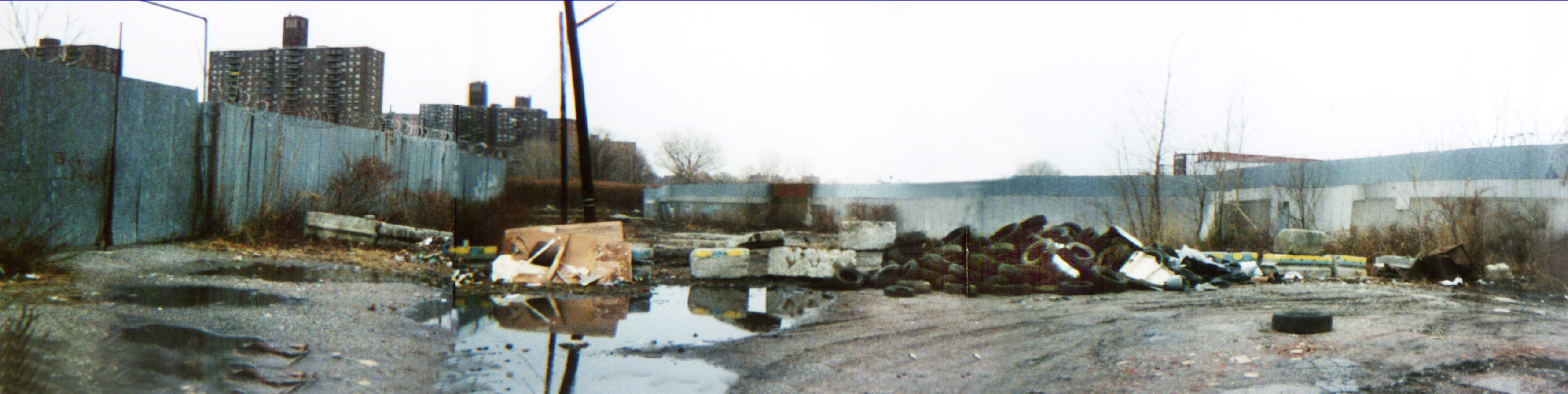 This how the area now known as Hunts Point Riverside Park looked after 3 neighborhood volunteer clean-ups.